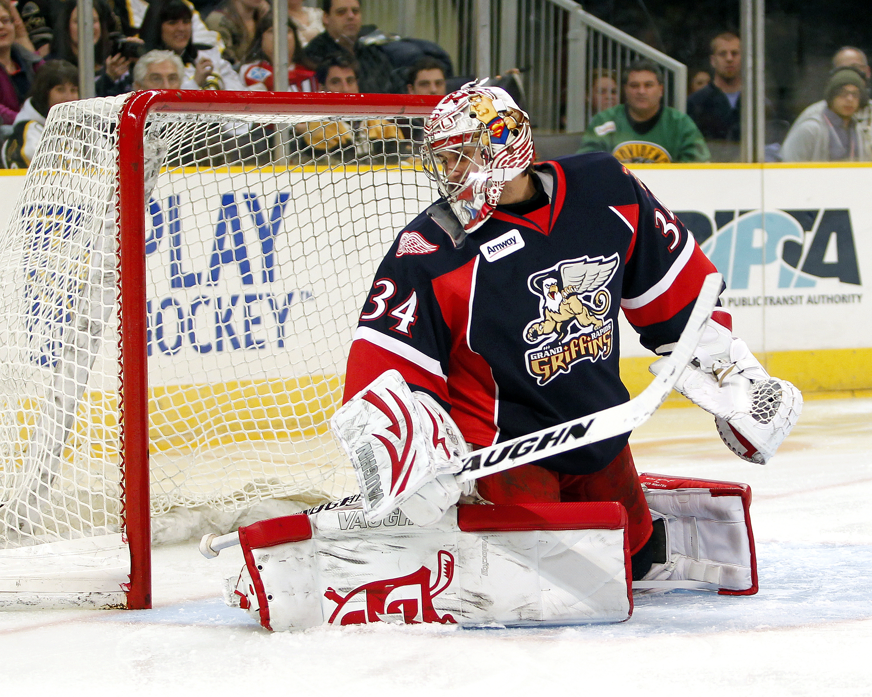 Mrazek3 American Hockey League (AHL). 2013 All-Star Skills Competition. Taken on January 27, 2013.